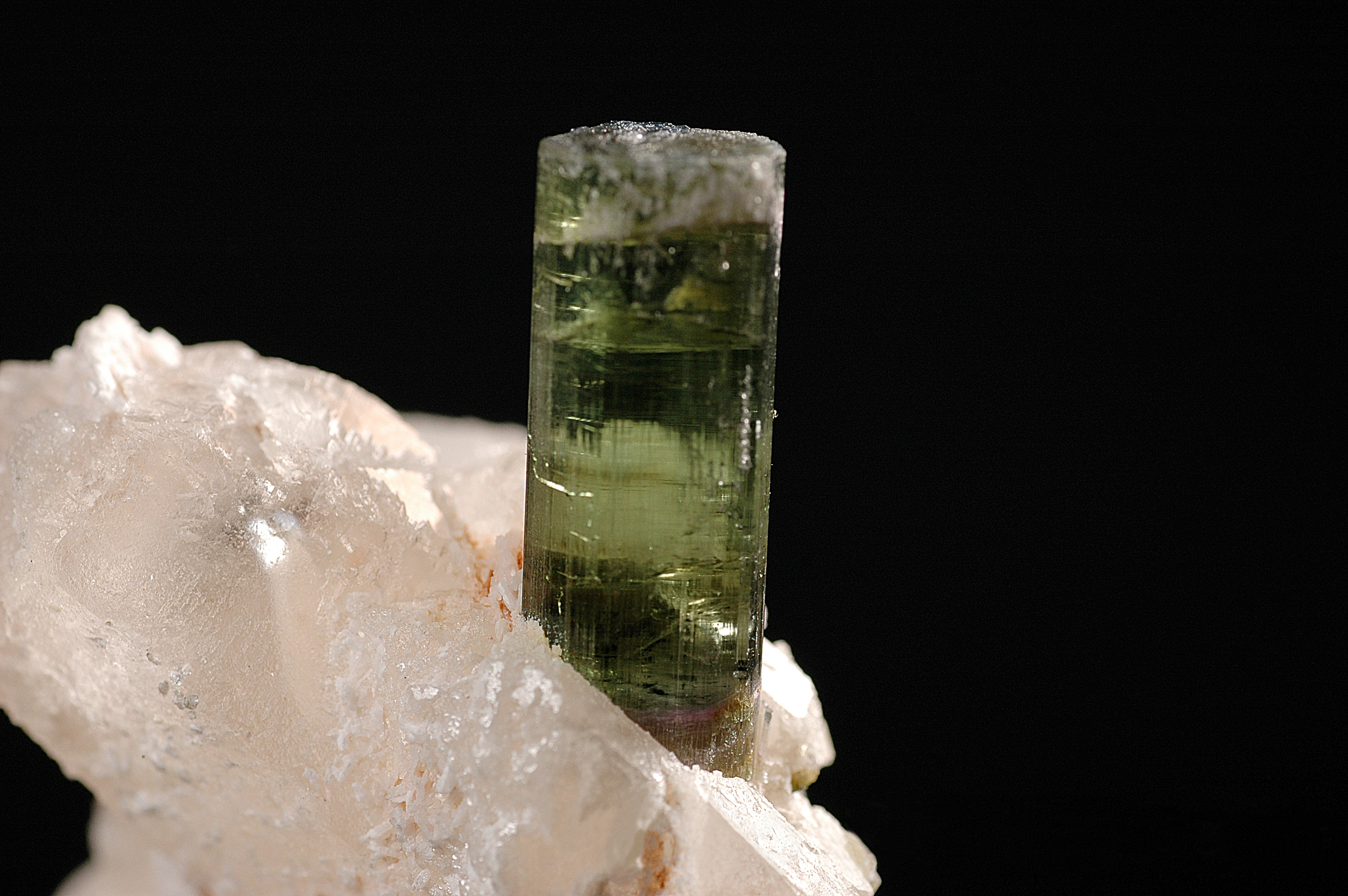 It is an immage of a Tormaline Elbaite, found in Minas Gerais (Brasil)